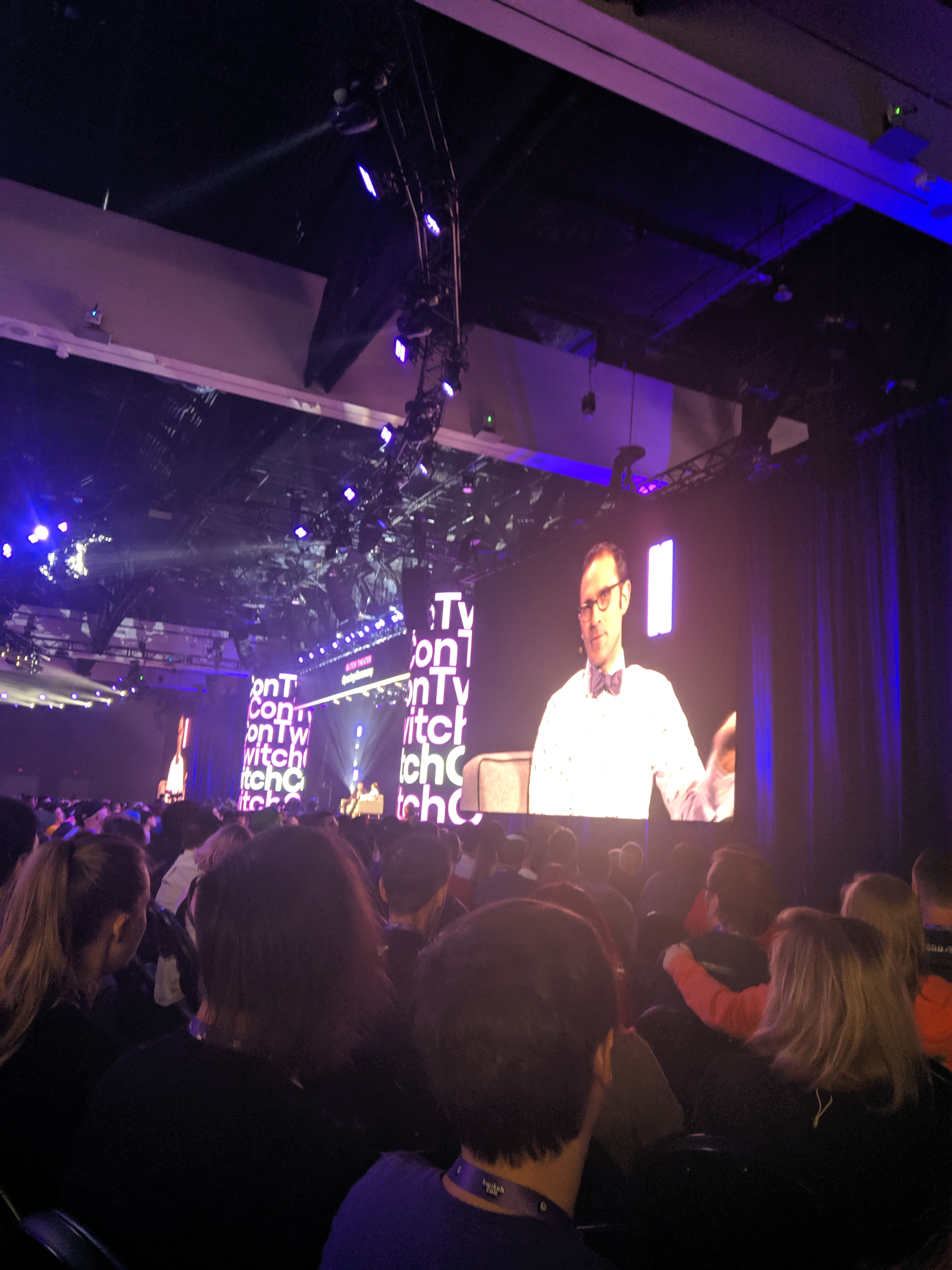 Emmett Shear at Twitchcon 2019 - Taken at Twitchcon 2019 Opening Ceremony at the San Diego convention center "Glitch Theater"